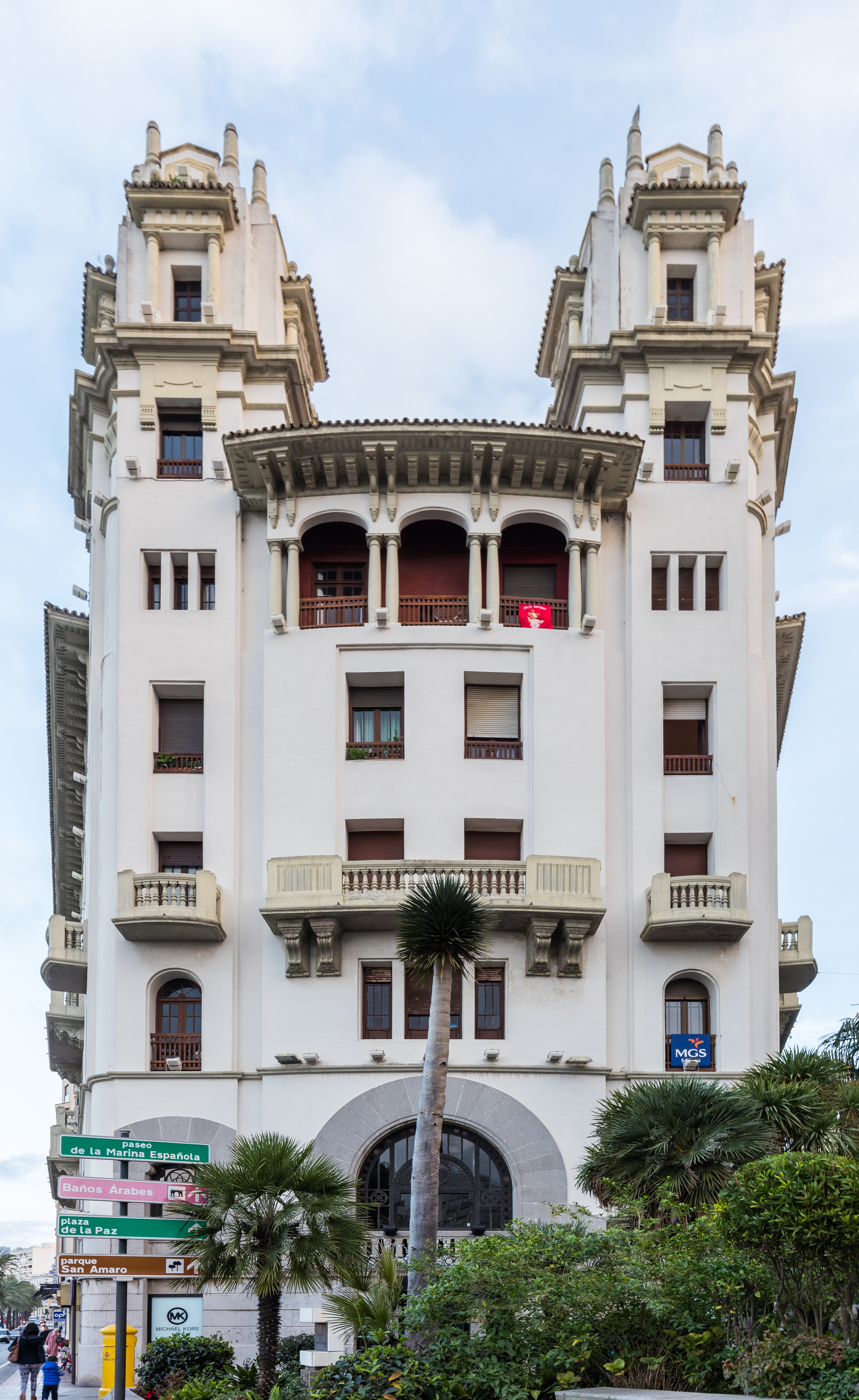 Trujillo Building, Ceuta, Spain